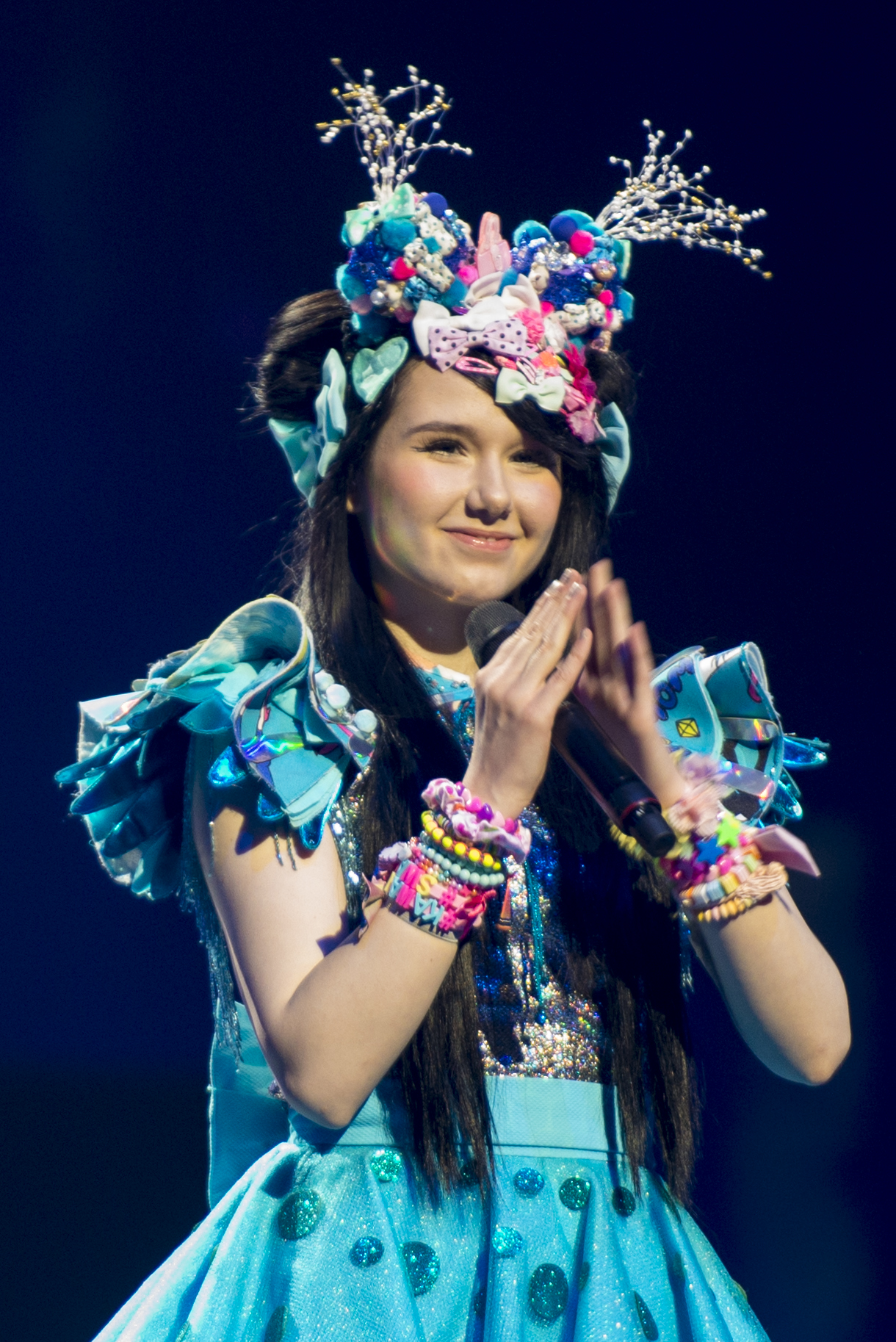 Jamie-Lee representing Germany with the song "Ghost" during a rehearsal for "the Big Five" in the Eurovision Song Contest 2016 in Stockholm. (Help translate this text)